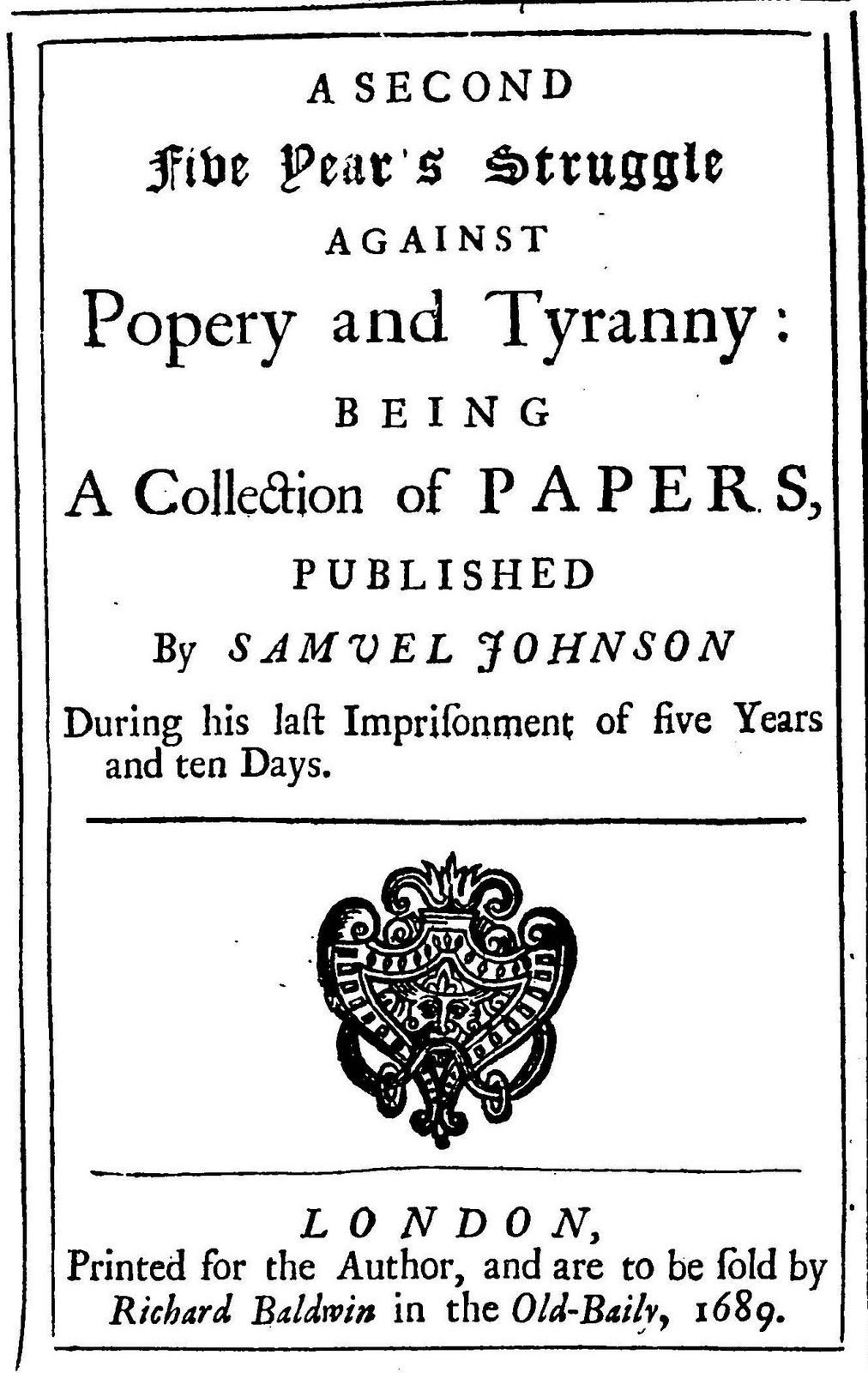 Frontispiece from a 1689 work by Samuel Johnson (1649–1703), English clergyman and political writer.